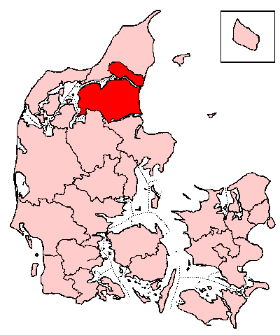 Map of Aalborg County 1793-1970